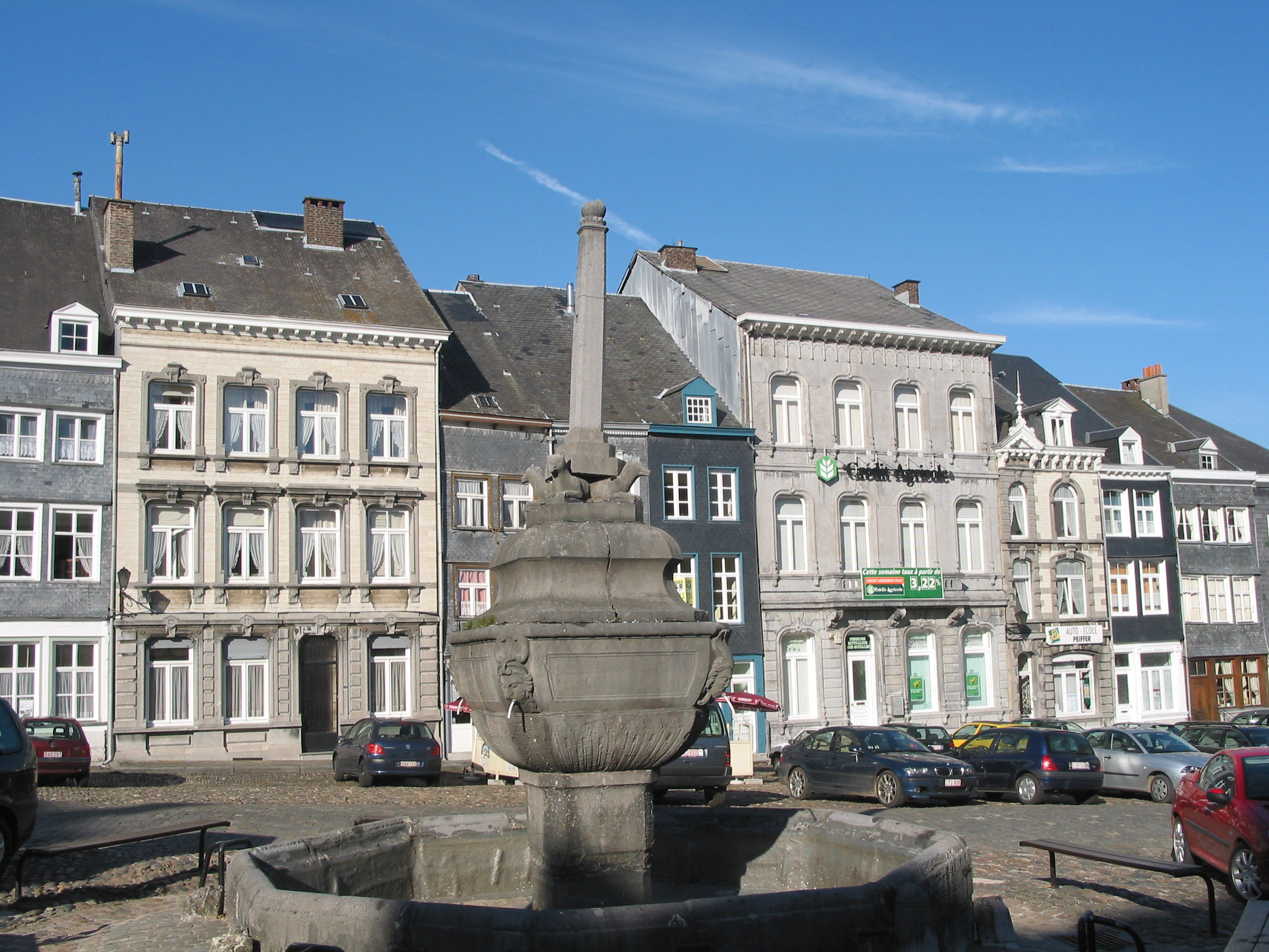 Stavelot (Belgium), St. Remacle place - The "Perron" fountain (1769).